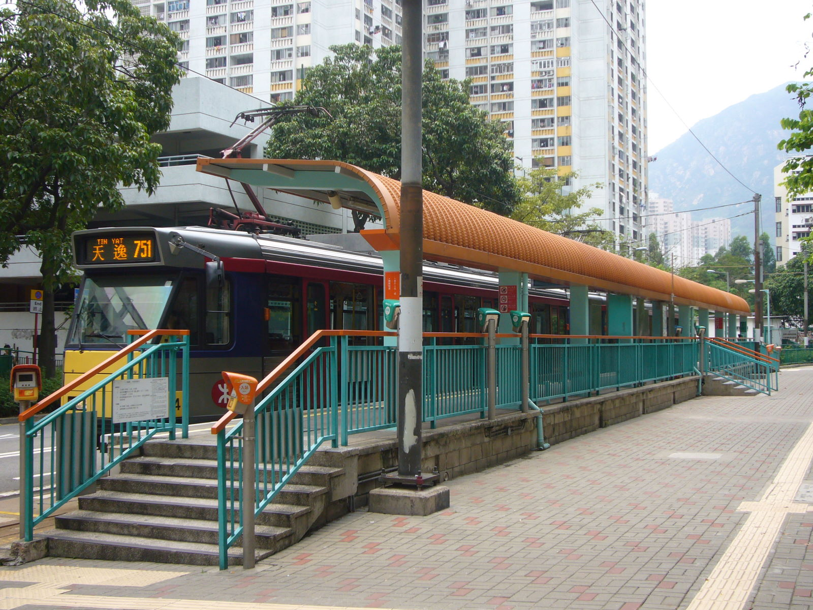 LRT Yau Oi Stop, MTR HK